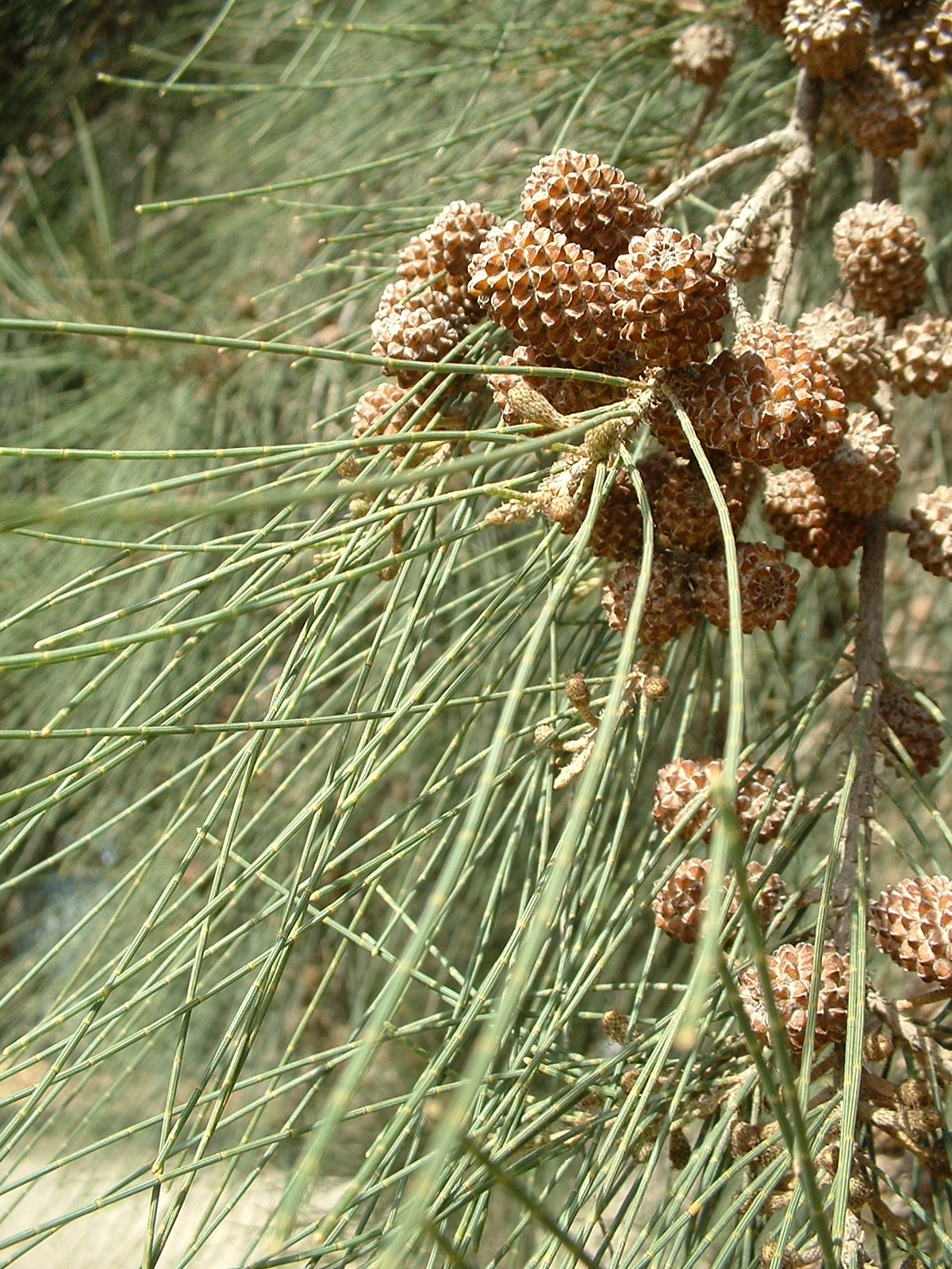 Casuarina cunninghamiana - fruit and leaves. Photographed in Karkur, Israel, by me, Dec. 30, 2005. Fuji FinePix 2650 camera.